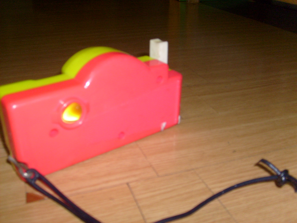 A toy peep show, which shaped camera.